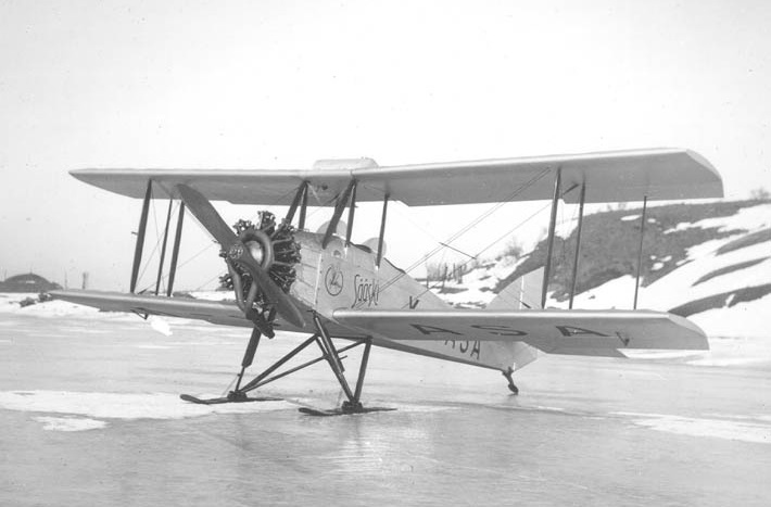 Template:K-SASA, Sääski I, was designed and built as a private venture. Photo from Eino Ritajärvi collection.